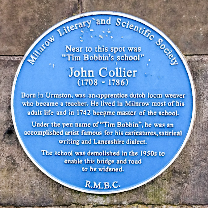 The blue plaque commemorating Milnrow's John Collier. This plaque is situated on Milnrow Bridge, in Milnrow, Greater Manchester.